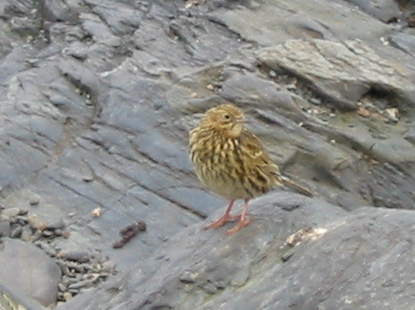 South Georgia Pipit